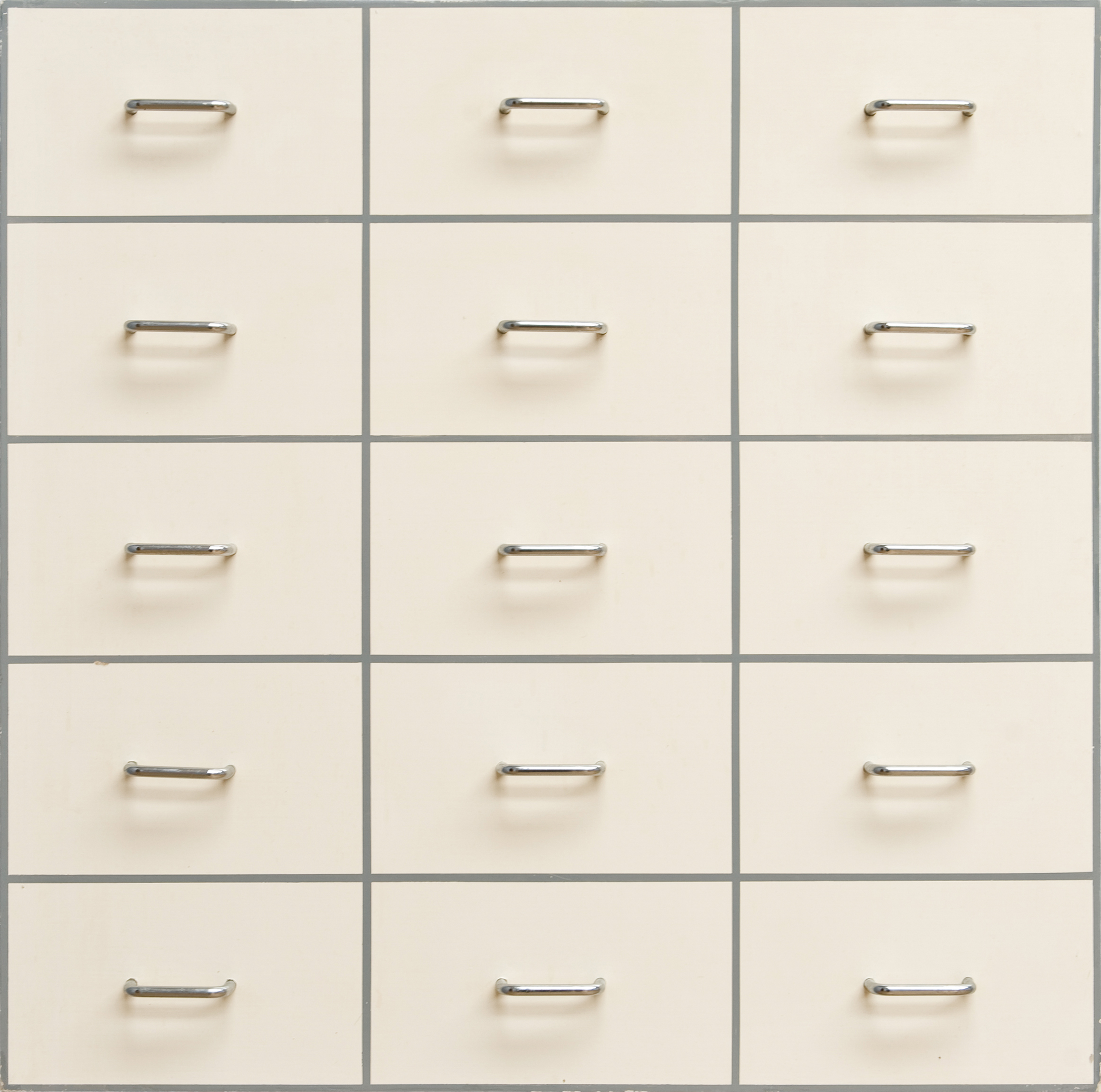 Painting with attached drawer handles